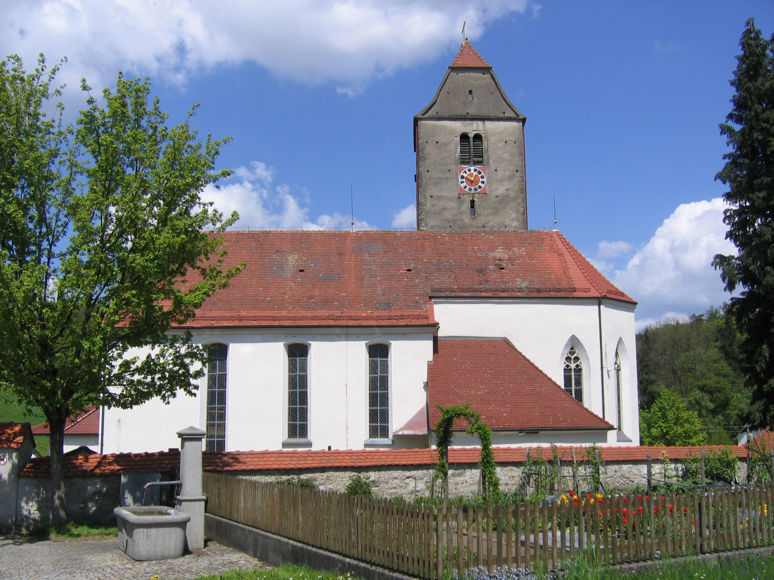 Germany - Baden-Württemberg - Bodenseekreis - Tettnang - Hiltensweiler: St. Dionysius-church